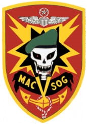 The official emblem of MACVSOG (Military Assistance Command Vietnam Studies and Observation Group)